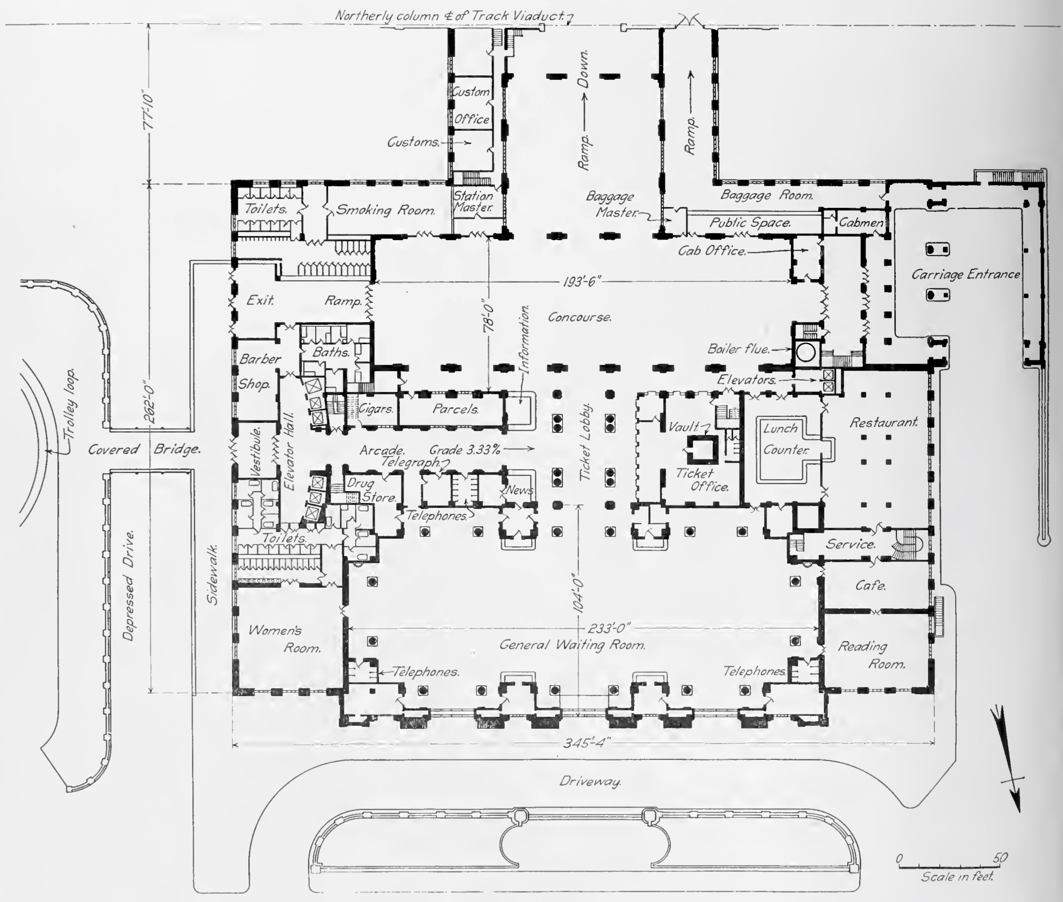 Street Level Floor Plan of Detroit Passenger Station